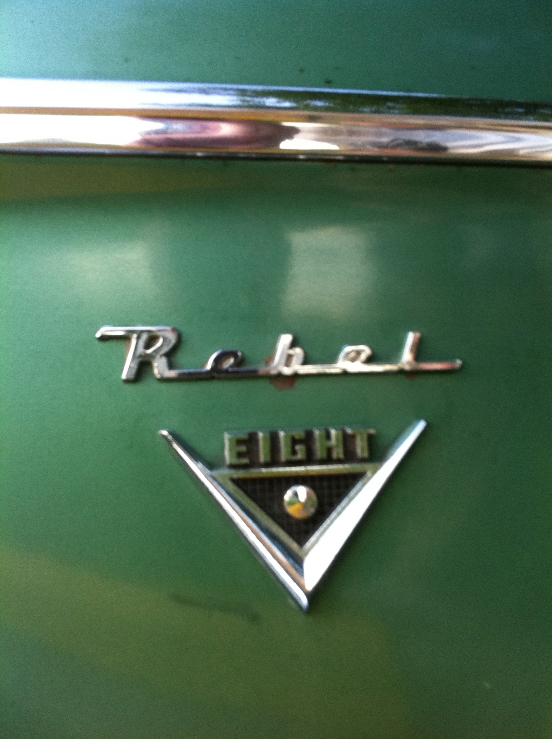 The Rebel and V8 front fender emblems on a 1960 Rambler Rebel, a family-sized 4-door sedan built by American Motors Corporation (AMC).